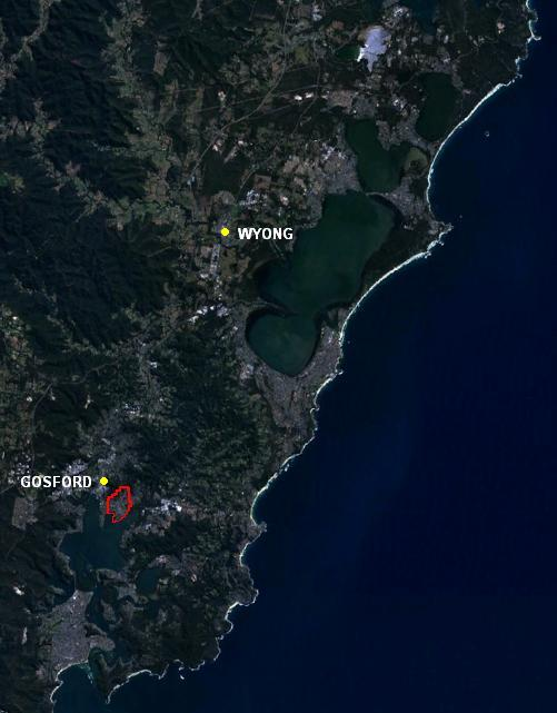 Central Coast, New South Wales, with the suburb of East Gosford marked in red, and city centres marked for reference.